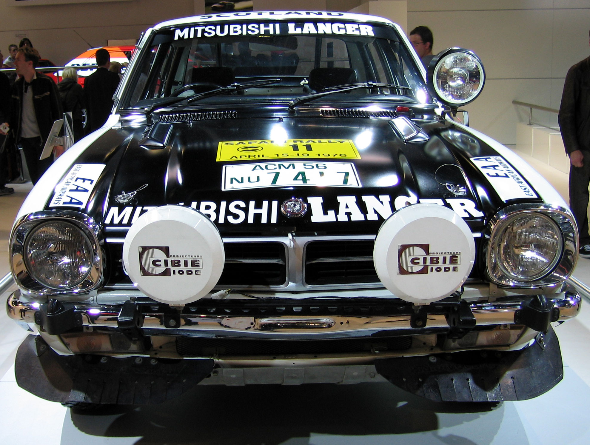 Mitsubishi Lancer 1600 GSR at the IAA 2007